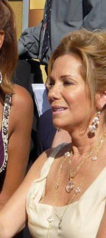 Television hostess, singer and actress Kathie Lee Gifford at 2008 Emmy Awards.